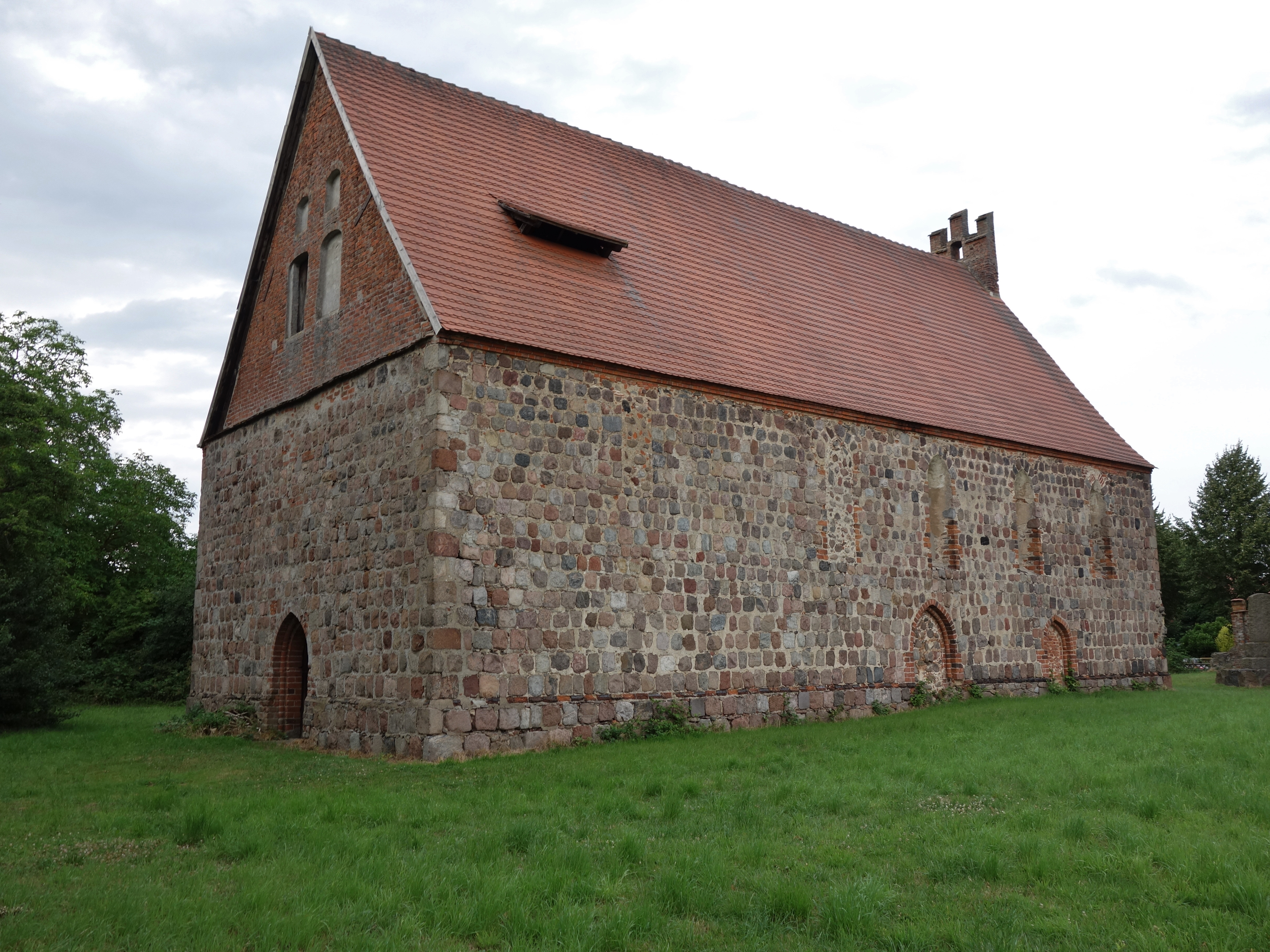 South-western view of church in Groß Welle, Gumtow municipality, Prignitz district, Brandenburg state, Germany